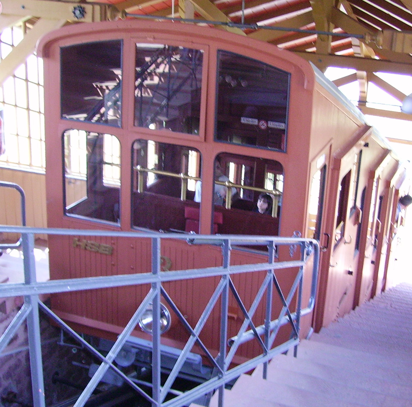 on top of Königstuhl (mountain) in Heidelberg, Germany